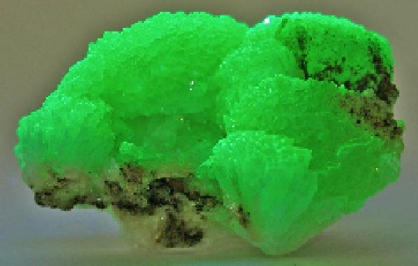 Adamite Locality: Ojuela Mine, Mapimí, Municipio de Mapimí, Durango, Mexico (Locality at ) Size: 4.5 x 3.5 x 3.4 cm. Scintillating, glassy, pleasing yellow-green, elongated adamite crystals in radiating clusters form a fine specimen from the Mina Ojuela of Mexico. Classic and highly representative of the species and noted locale. Superb green fluorescence. From the 1970s. Ex. Consie Prince Collection.